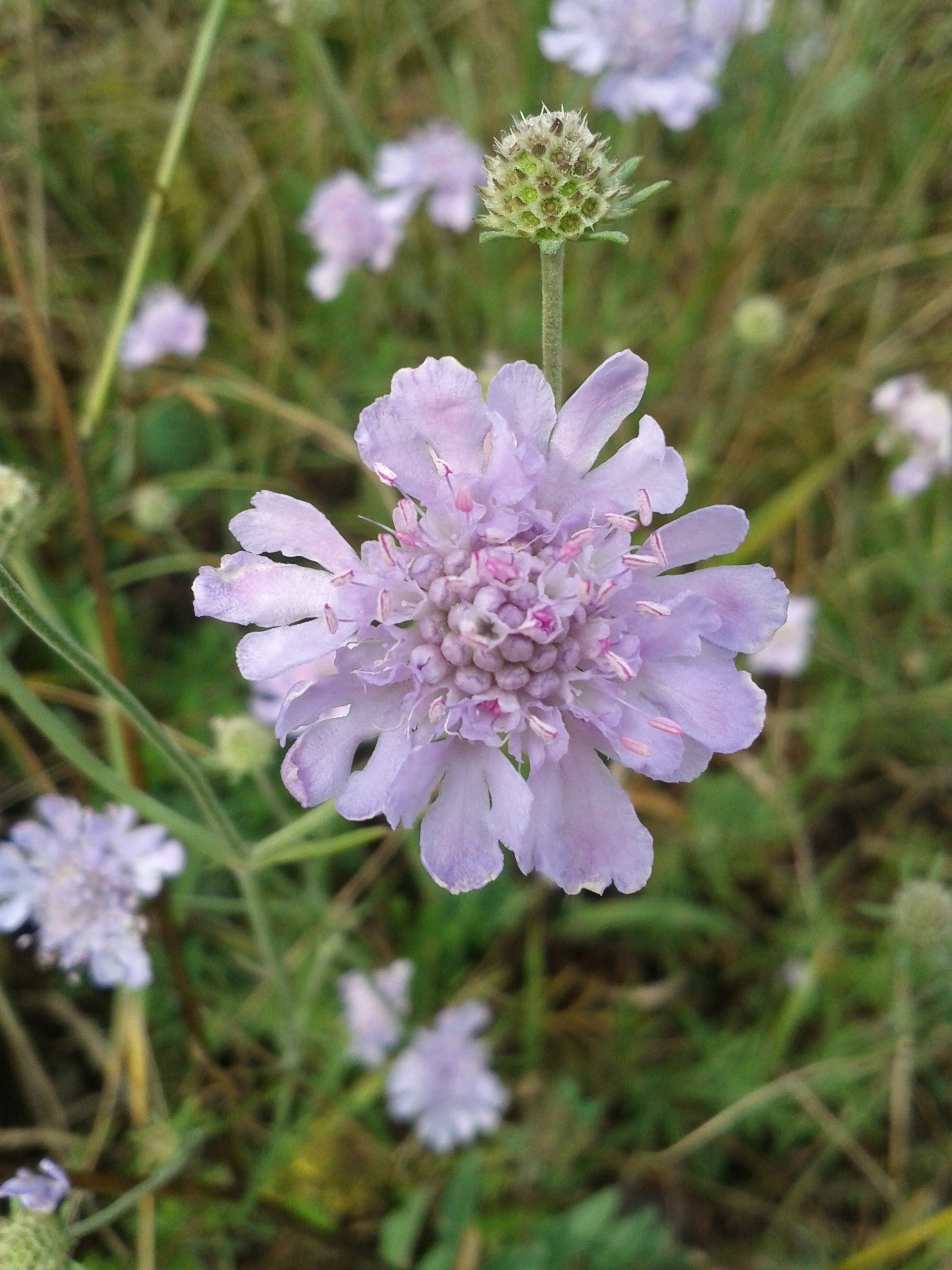 Inflorescence Taxonym: Scabiosa canescens ss Fischer et al. EfÖLS 2008 ISBN 978-3-85474-187-9 Location: Stetter Berg, district Korneuburg, Lower Austria - ca. 250 m a.s.l. Habitat: semi-dry grassland